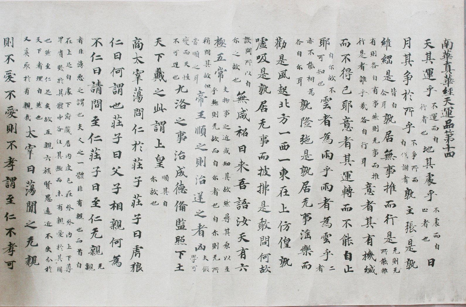 Tang dynasty manuscript of "Tian Yun" Volume of Zhuangzi discovered in Dunhuang (attributed).